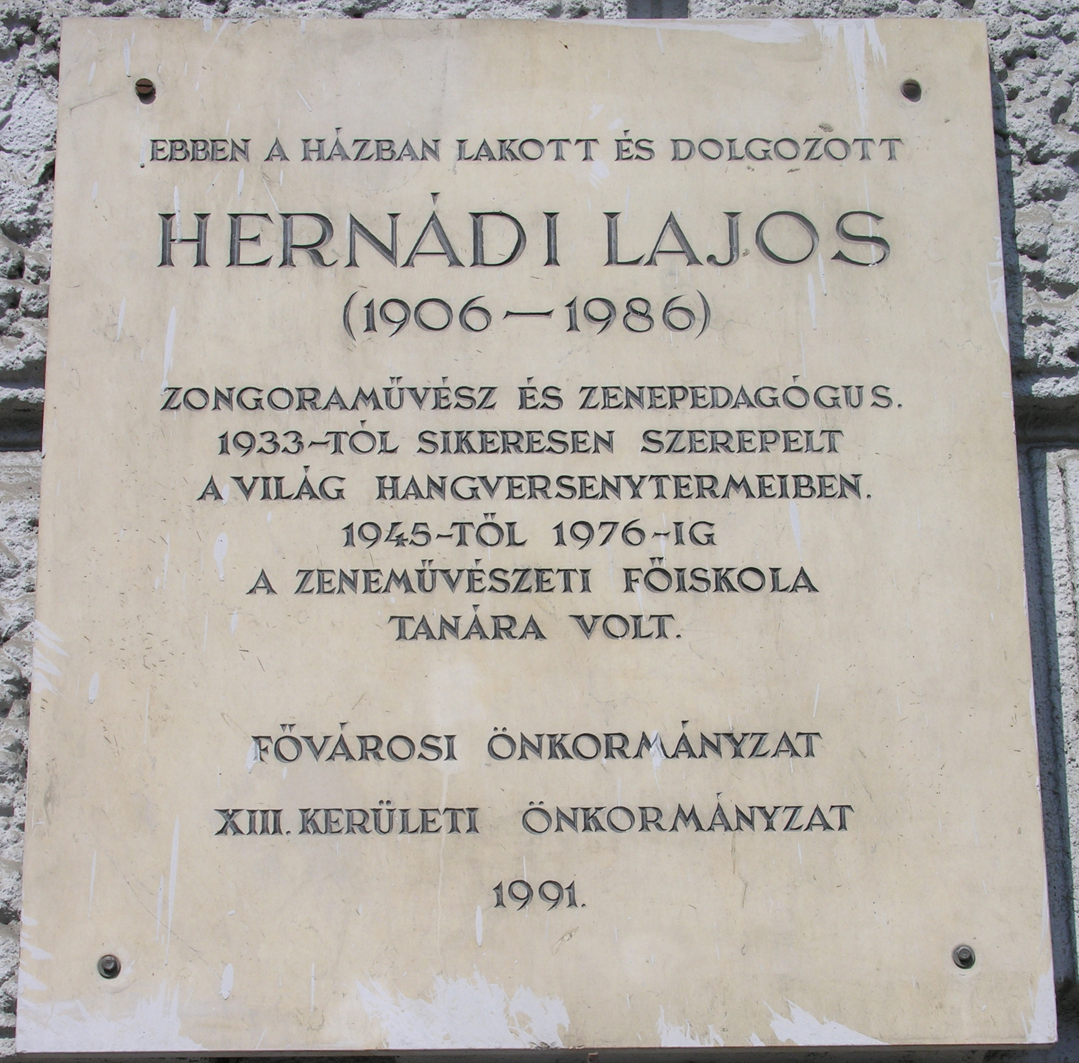 Commemorative plaque of Lajos Hernádi in Budapest District XIII, Hegedűs Gyula Street No 8